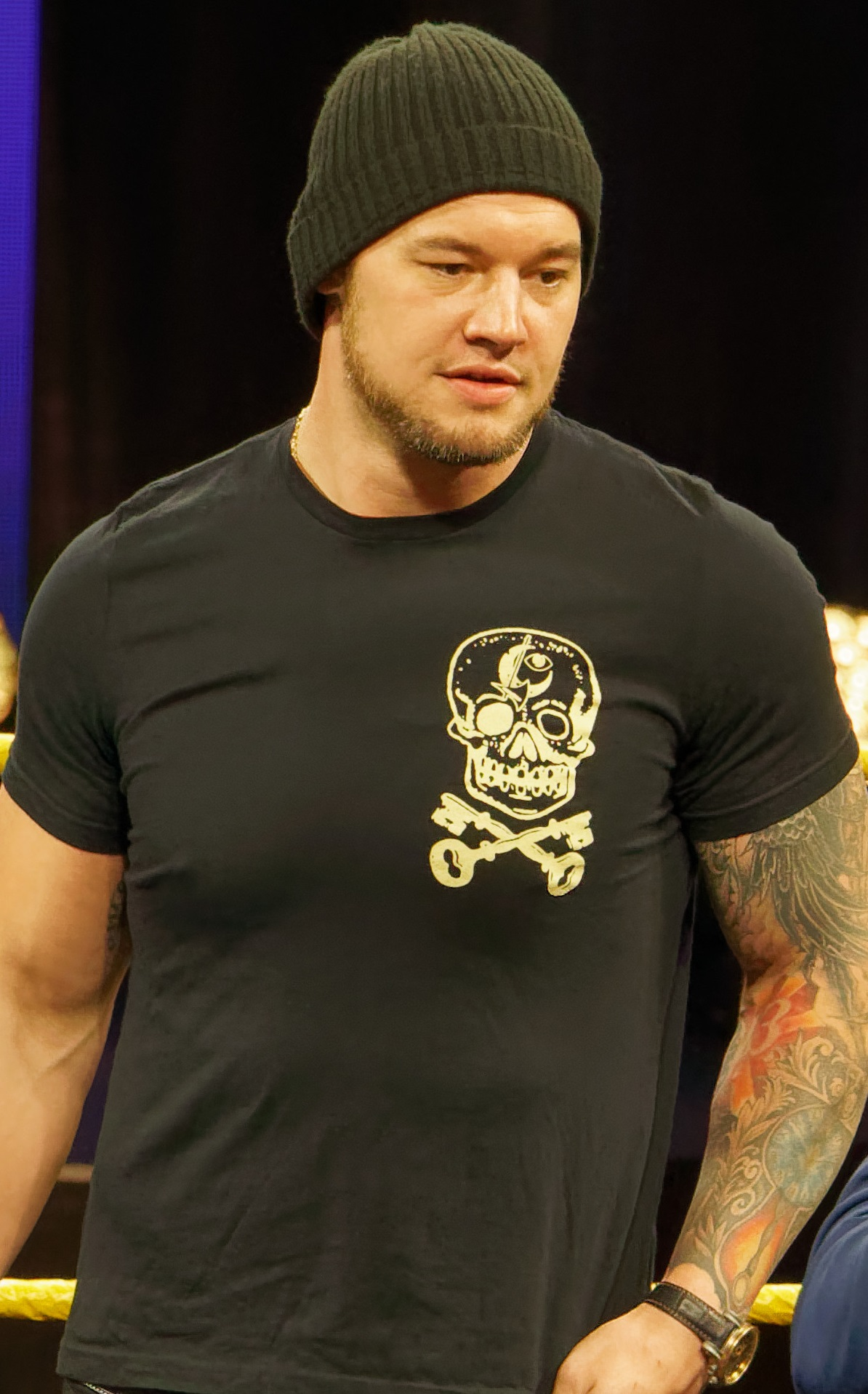 Professional wrestler, Baron Corbin on April 5, 2018, at a WWE event.